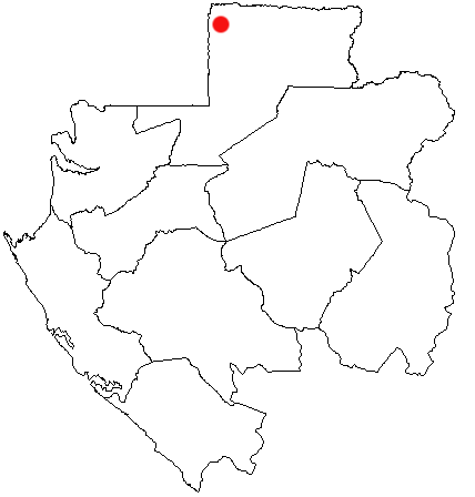 Bitam, Gabon Location Map; created with the GIMP. Made by User:Acntx.